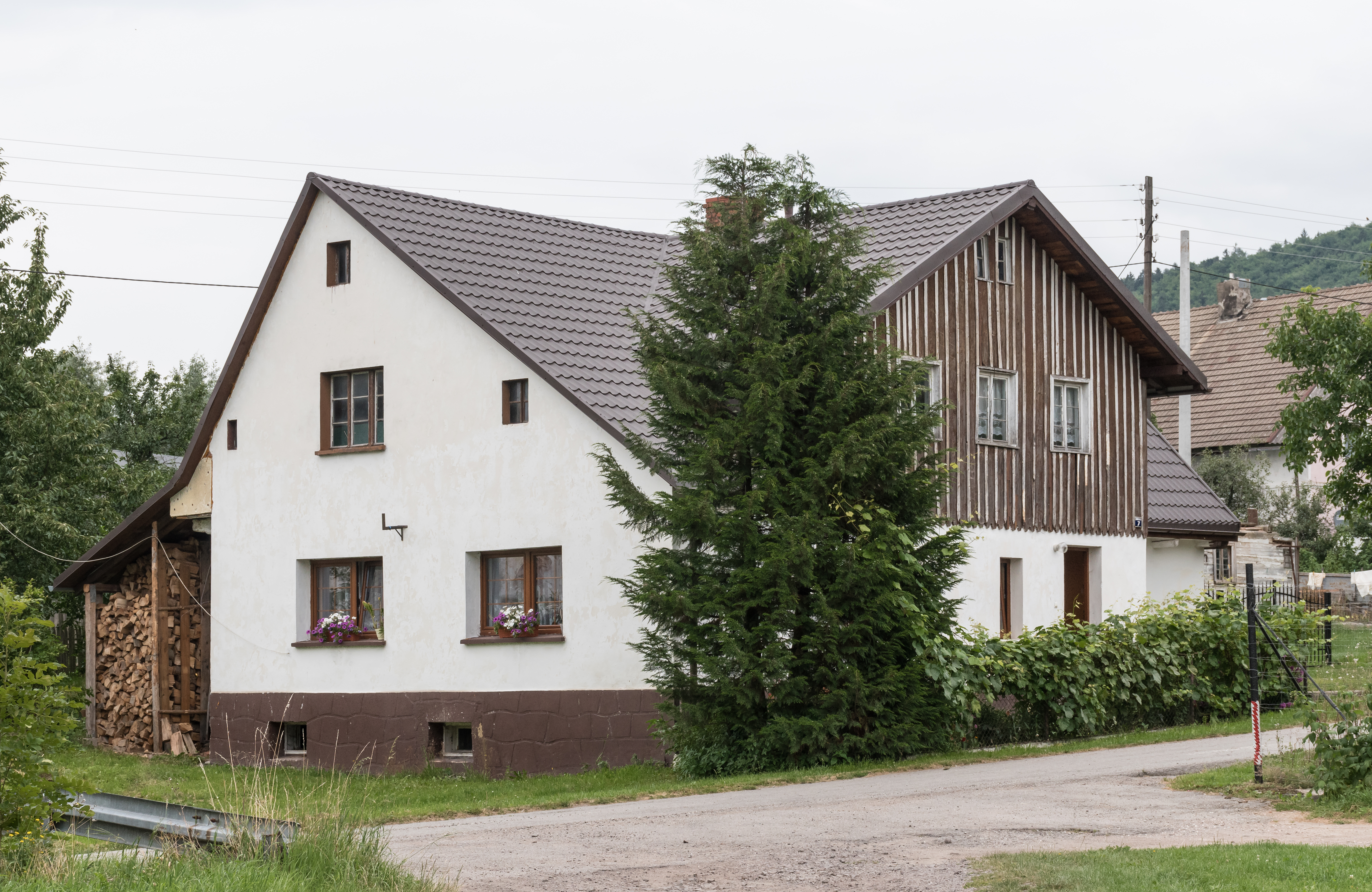 House No. 7 in Jaworek